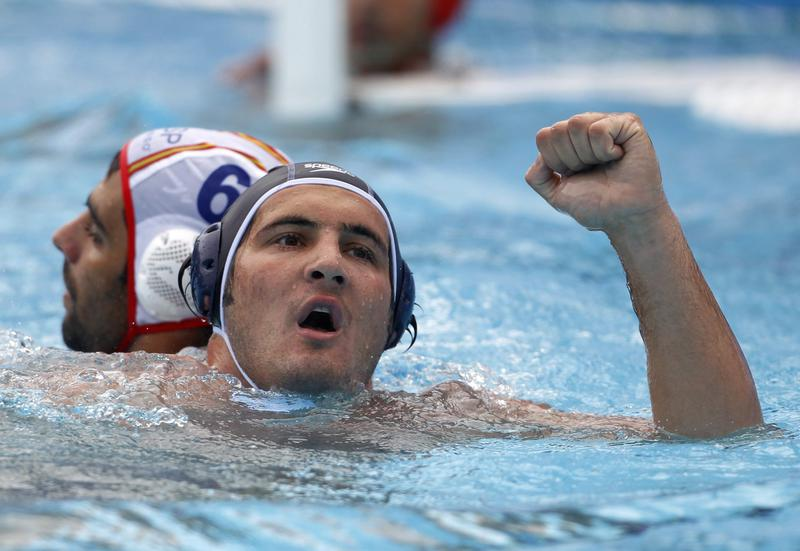 Celebrating a goal against Spain